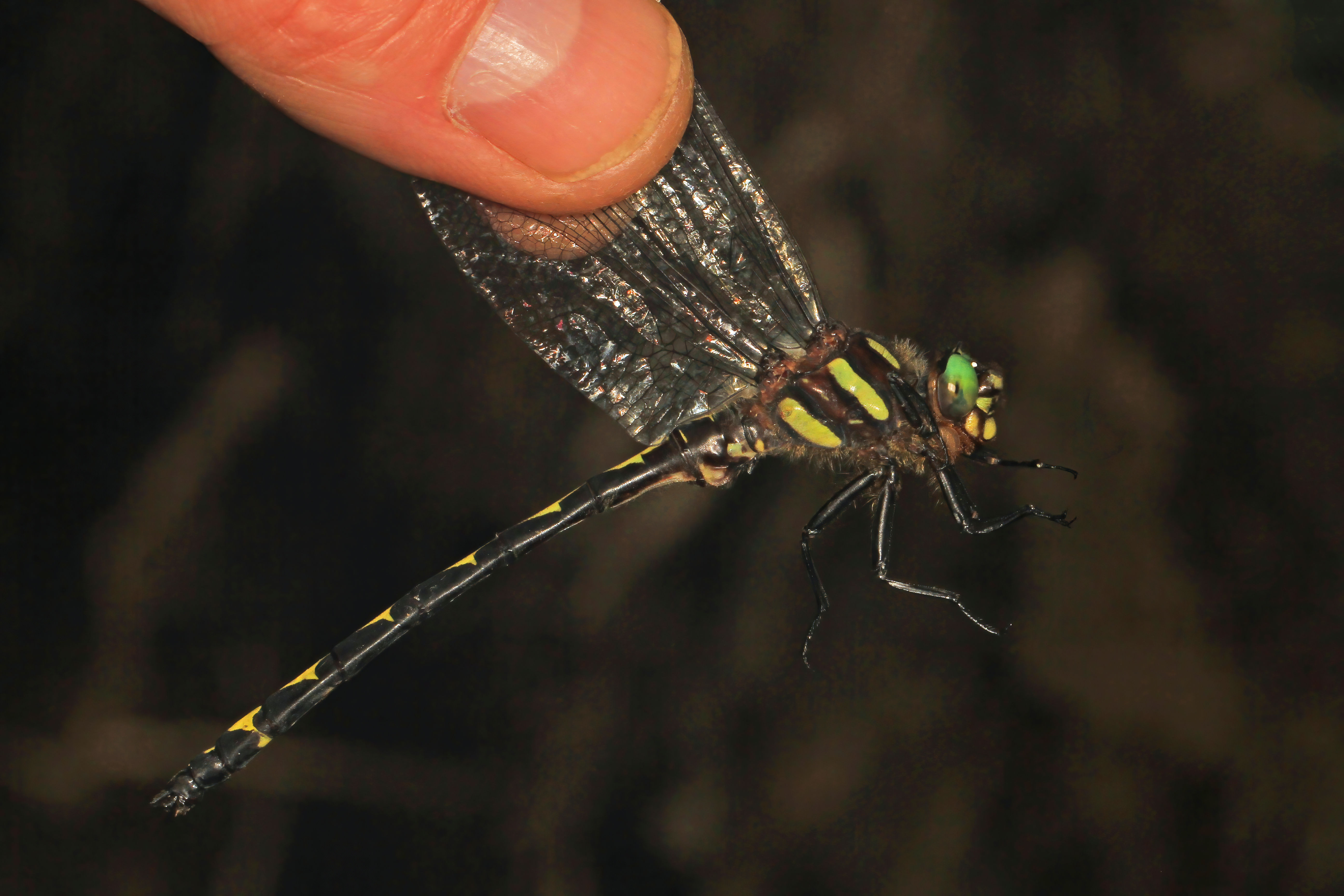 Arrowhead Spiketail - Cordulegaster obliqua, Friendsville, Maryland